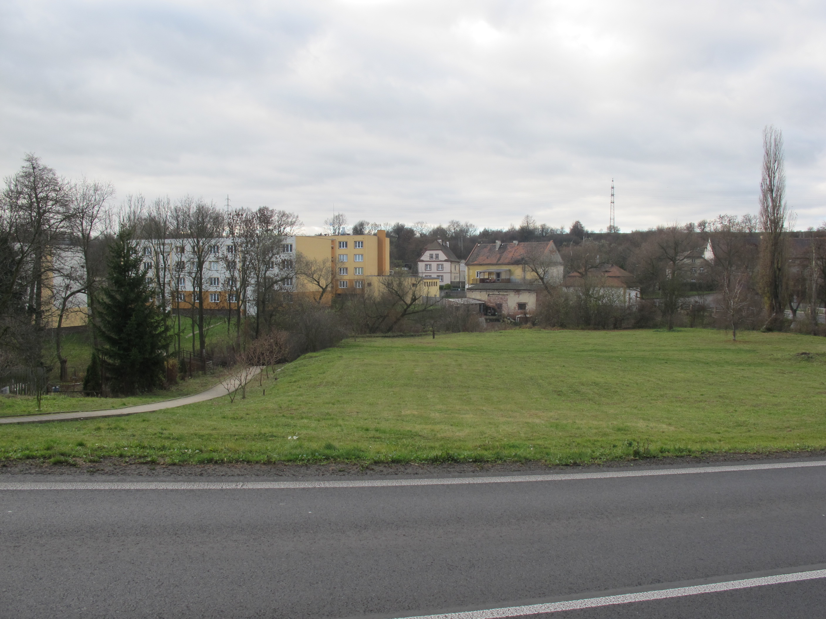 Village square in Žiželice